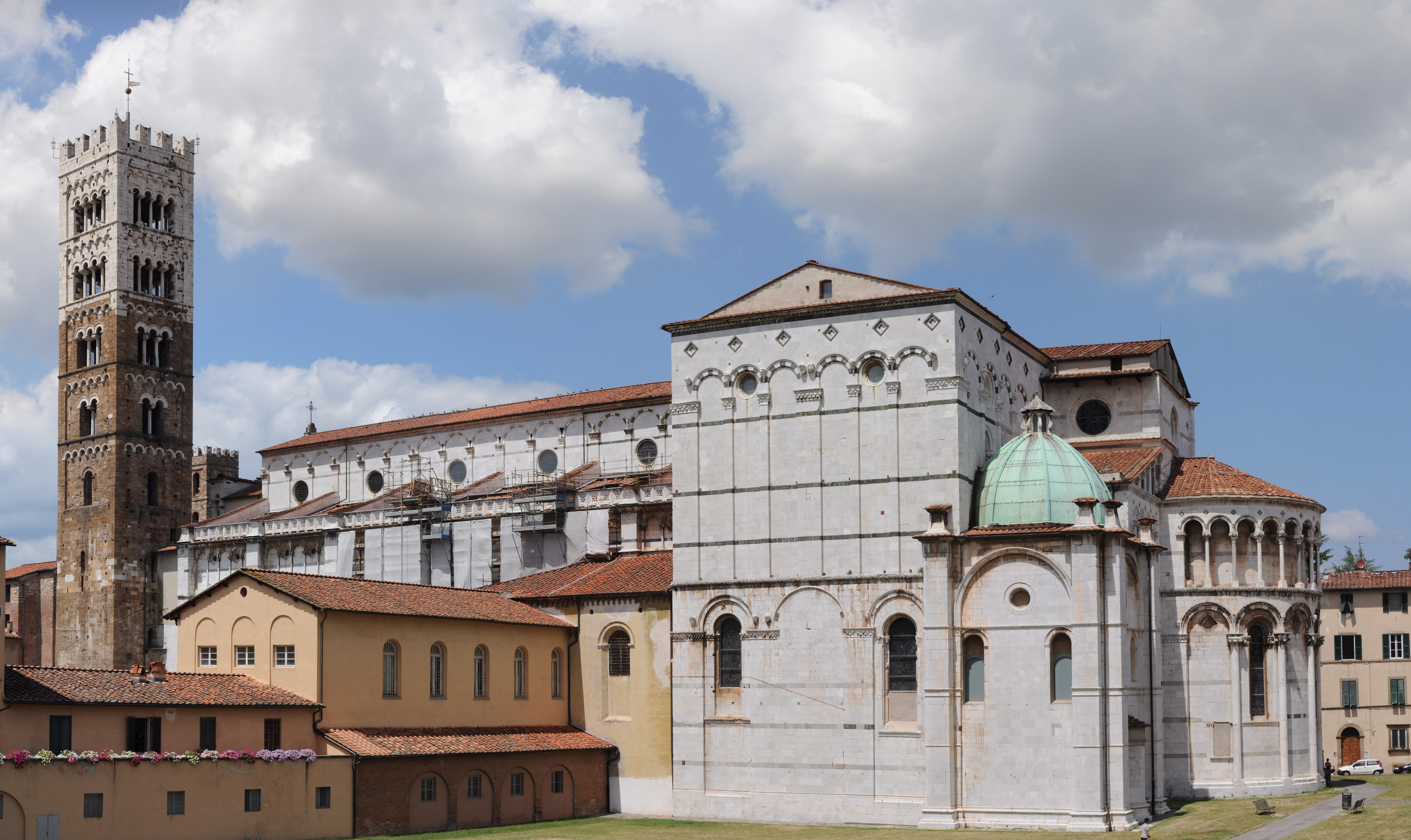 Lucca Cathedral, viewed from the city wall